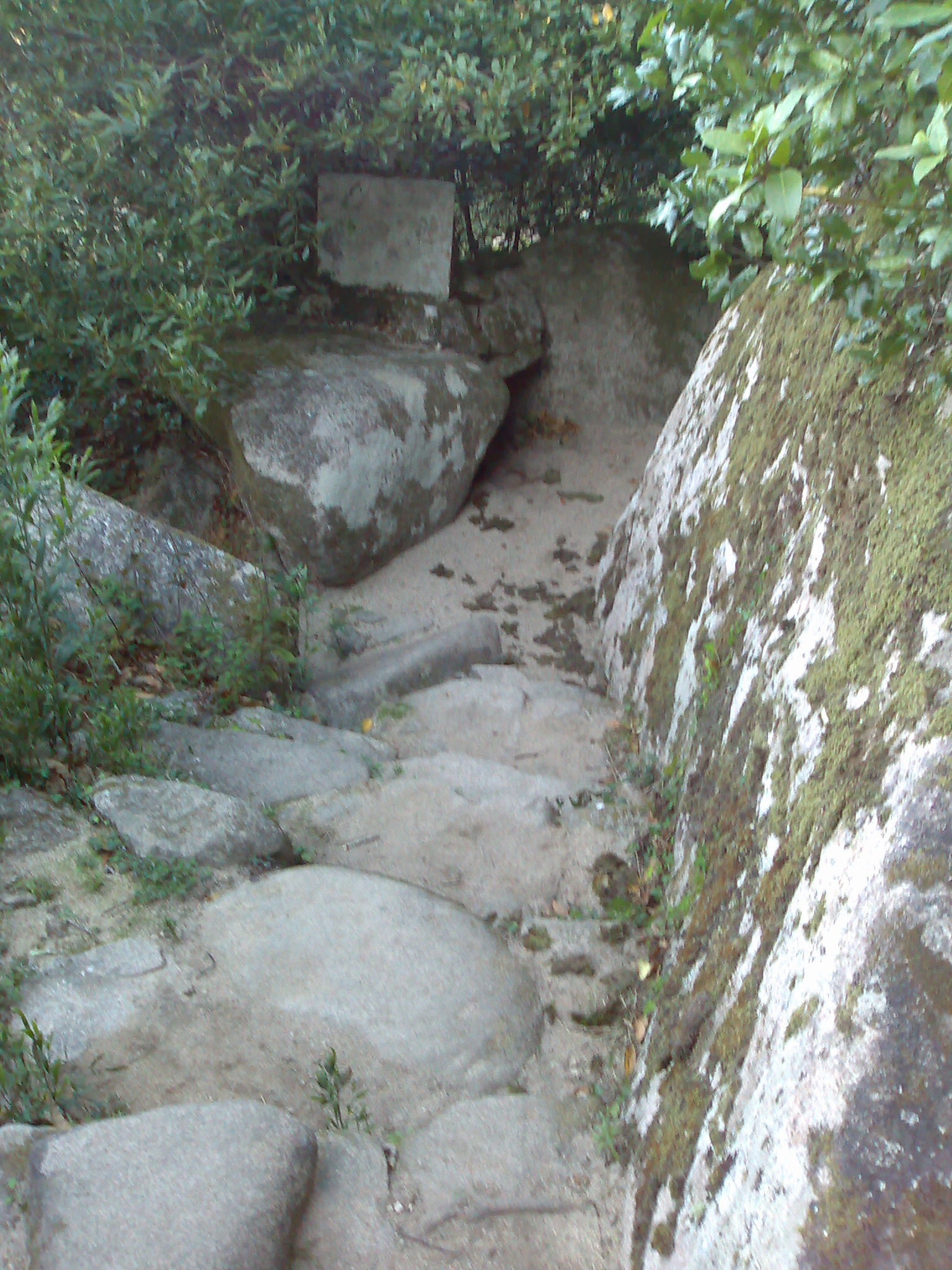 Convento dos capuchos (Sintra) - Frei Honório's Cave